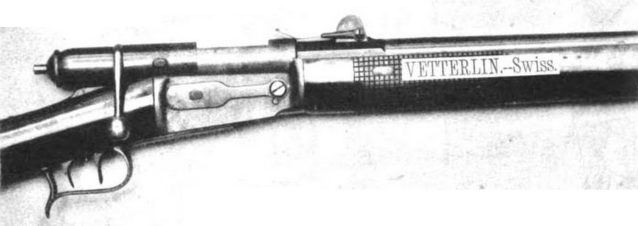 Swiss Vetterlin caliber .42 musket (No. 18) close-up